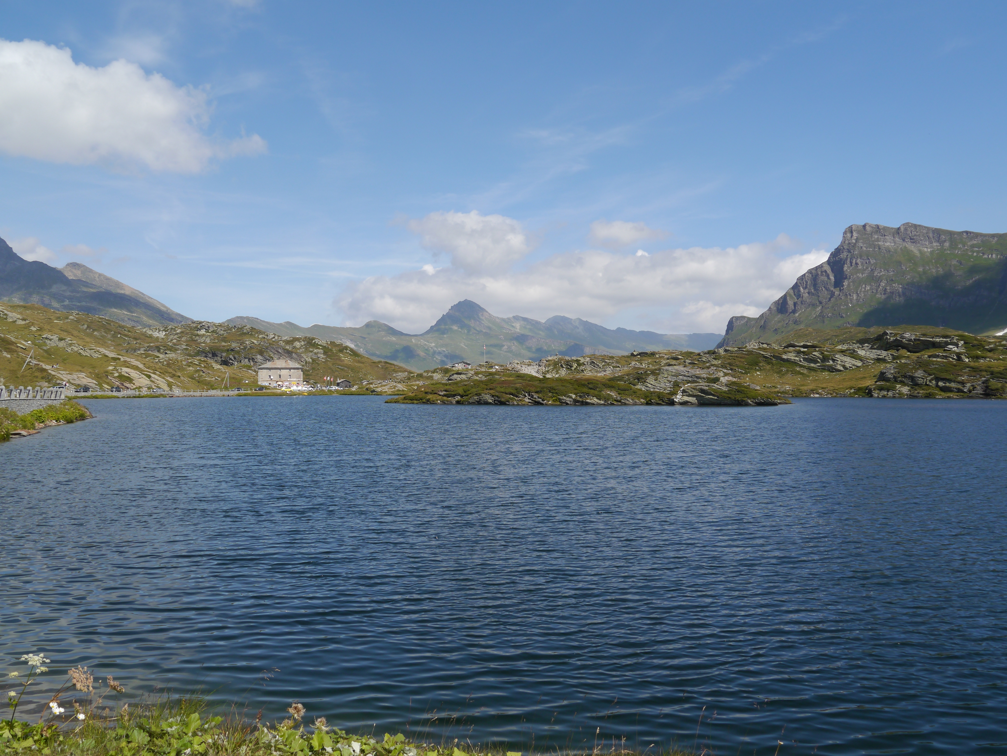 Top of San Bernardino Pass, Canton of Graubünden, Switzerland